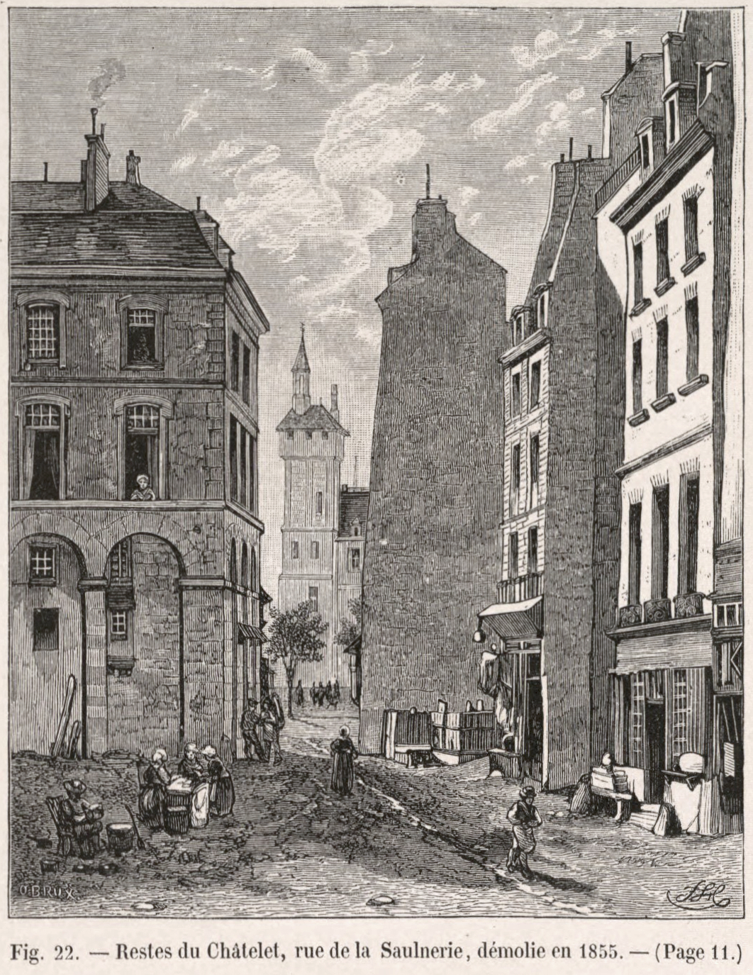 An 1855 depiction of the remains of Châtelet, as seen from the rue de la saulnerie. This small castle dates back to the twelfth century, and was demolished under Napoléon in 1802.